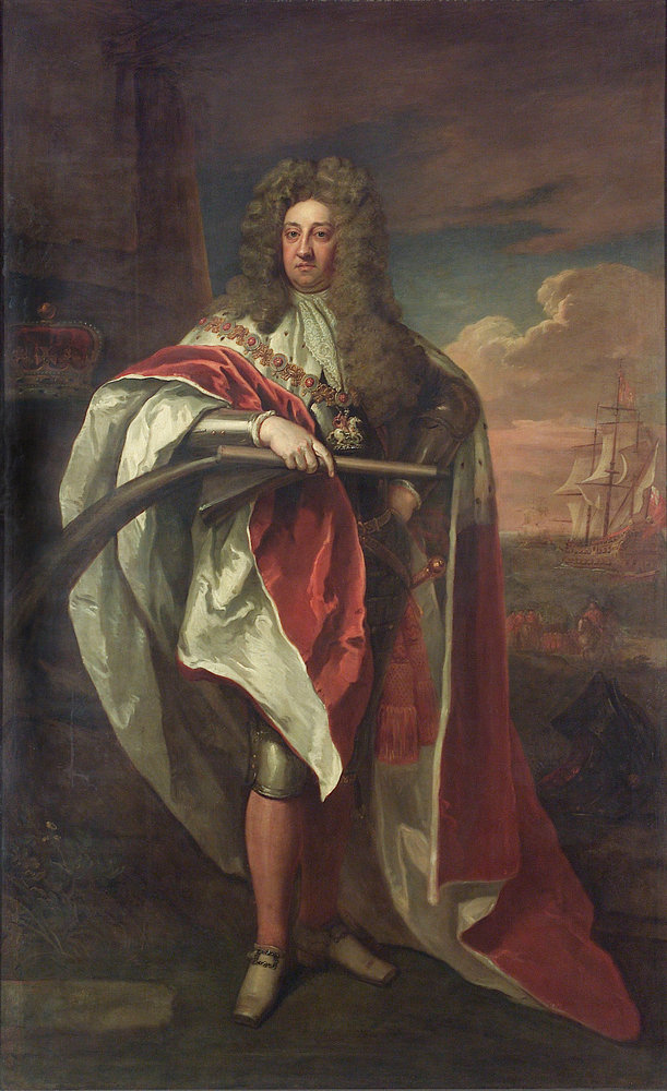 Prince George of Denmark and Norway, husband of the Queen of England, Scotland and Ireland, wearing a ducal robe with the collar of the Garter.